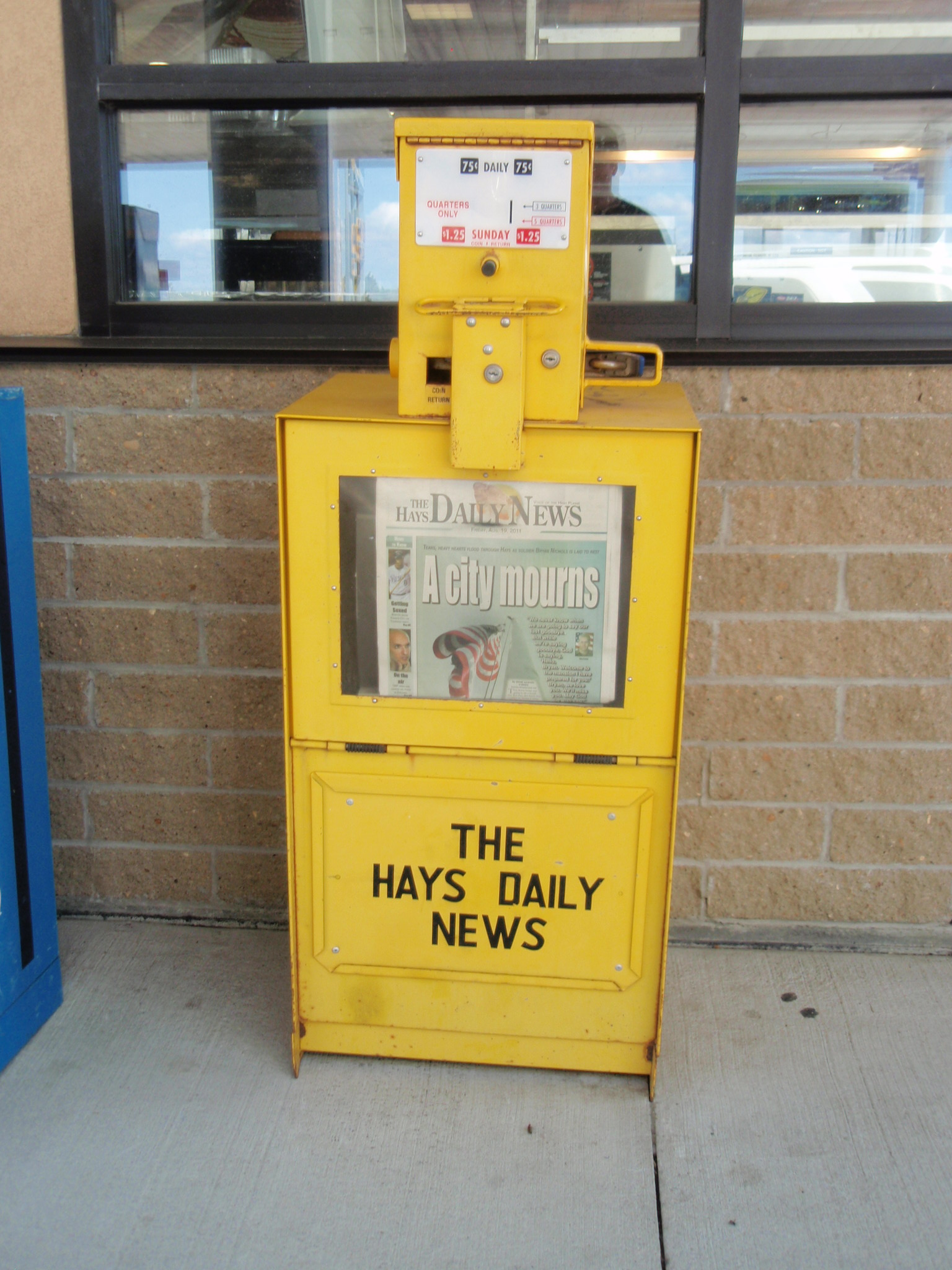 Hays Daily News paper vending machine - photographed in Oakley, Kansas